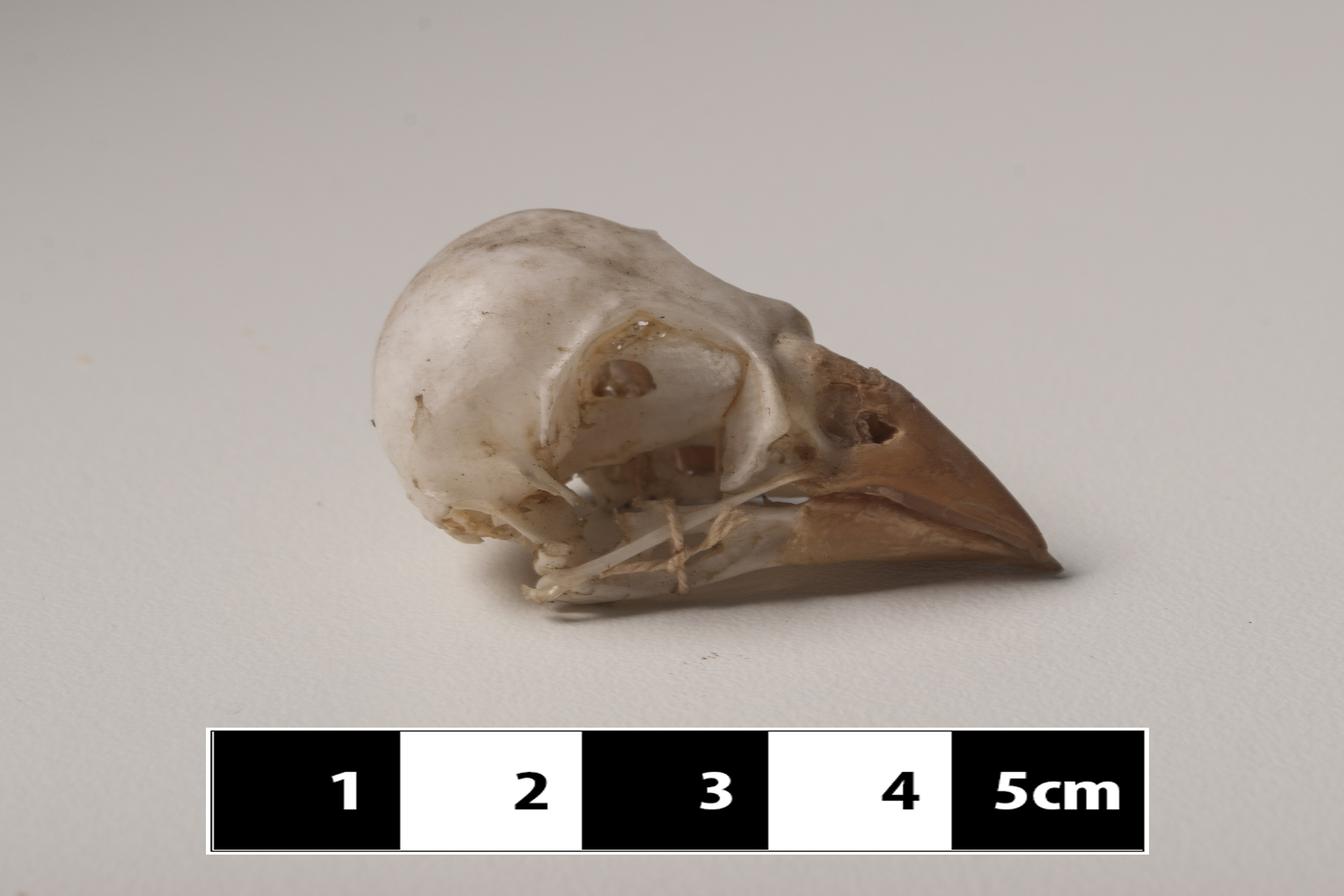 Red-Cowled Cardinal skull “Paroaria dominicana”. Technique of bone maceration on display at the Museum of Veterinary Anatomy, FMVZ USP.